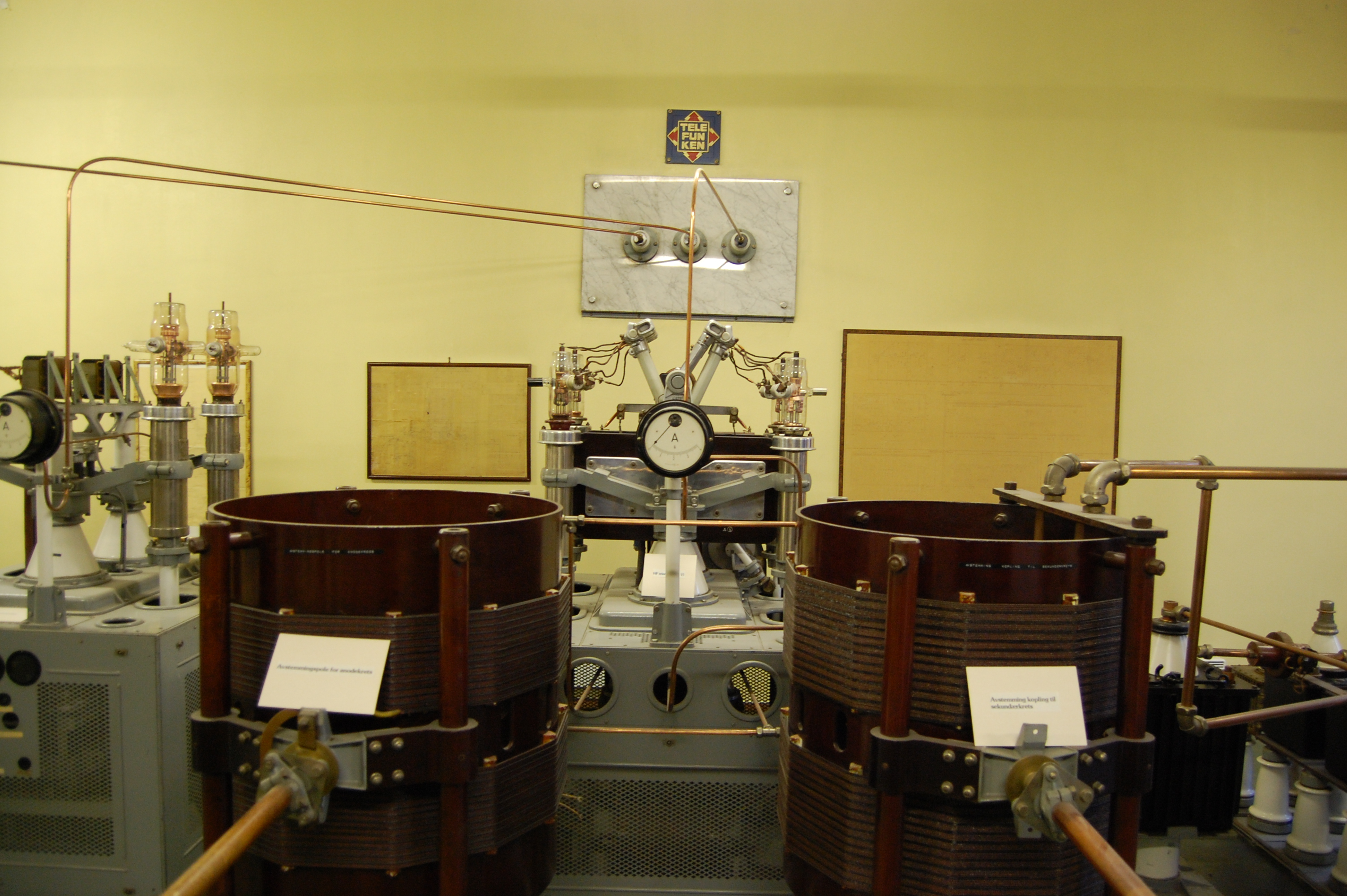 Telefunken broadcasting transmitter of 20 kW at Bergen kringkaster, near the village of Erdal on Askoey Island north of Bergen, Norway. It was built in 1936 -1937 and is the only complete, remaining Telefunken transmitter of this type in the world. LKB Bergen Kringkaster is the former NRK (Norsk Rikskringkasting) AM(LW/MW) broadcasting station for Bergen. It began broadcasts in 1937 on 260 kHz. With the implementation of the Copenhagen Plan in 1950 the transmitters changed to MW channels. In 1965 a Philips 10 kW transmitter replaced the Telefunken for daily use. The installation is now a Norwegian Cultural Heritage site.